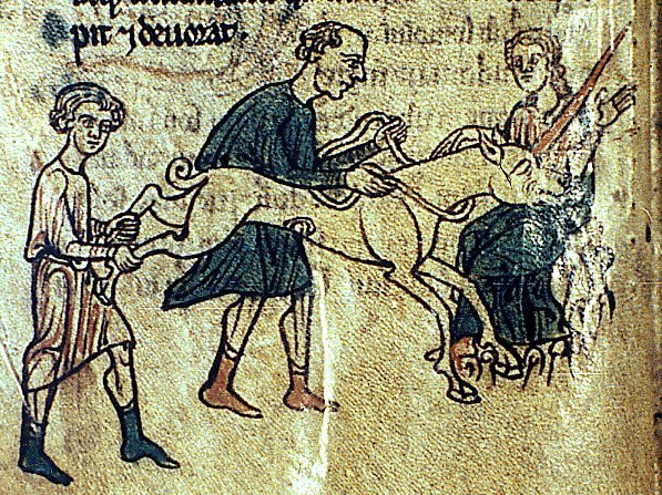 MS. Douce 167, folio 4 verso: Unicornis, 1st half 13th century, England (?), miniature, 26.7 × 19.4 cm, Bodleian Library, Oxford.